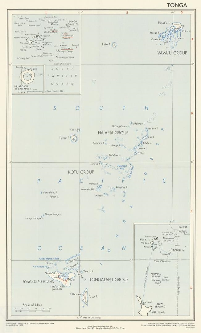 A 1960 British map made by the Directorate of Overseas Surveys. It includes location map with inset of Niuafo'ou (Tin Can Mail I.) and map showing distance from Auckland to Suva and to Tongatapu. Scale ca. 1:1,500,000.